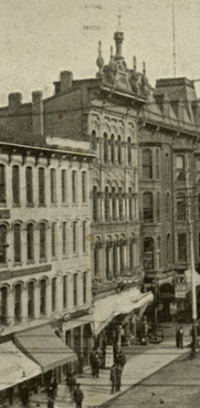 The NRHP-listed Rood Building in Grand Rapids, Michigan. This image is from a postcard postmarked July 15, 5pm, 1904.